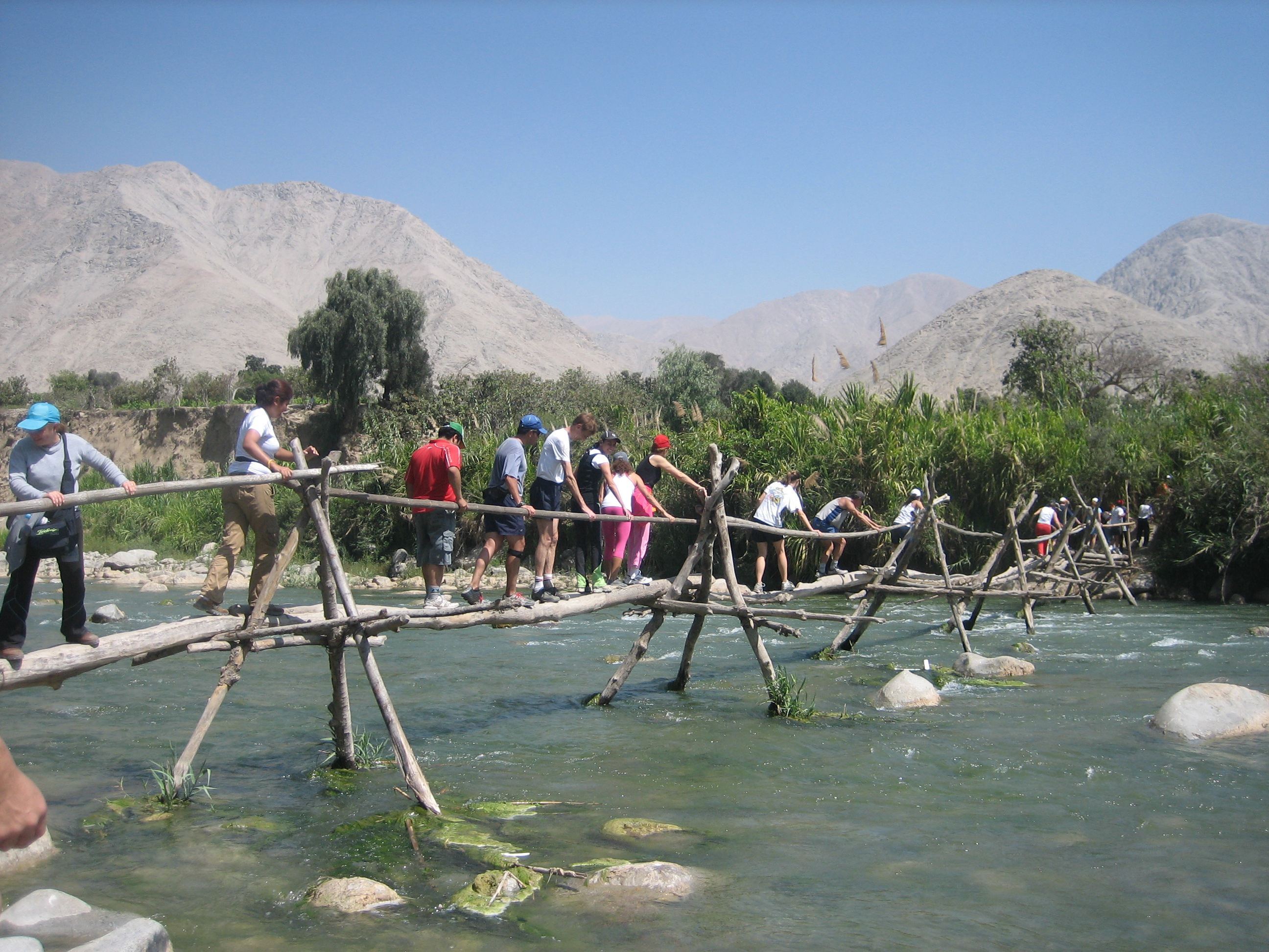 Participants of the Lima Hash House Harriers crossing a log bridge in Lunahuaná. Hash # 444